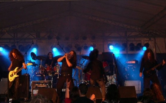 DarkSun live at El Lado Oscuro Tour.